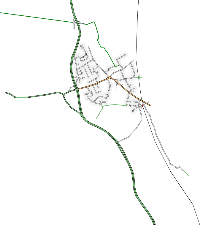 Roads layout in Sandy (partial). Sandy. This map may be incomplete, and may contain errors. Don't rely solely on it for navigation.